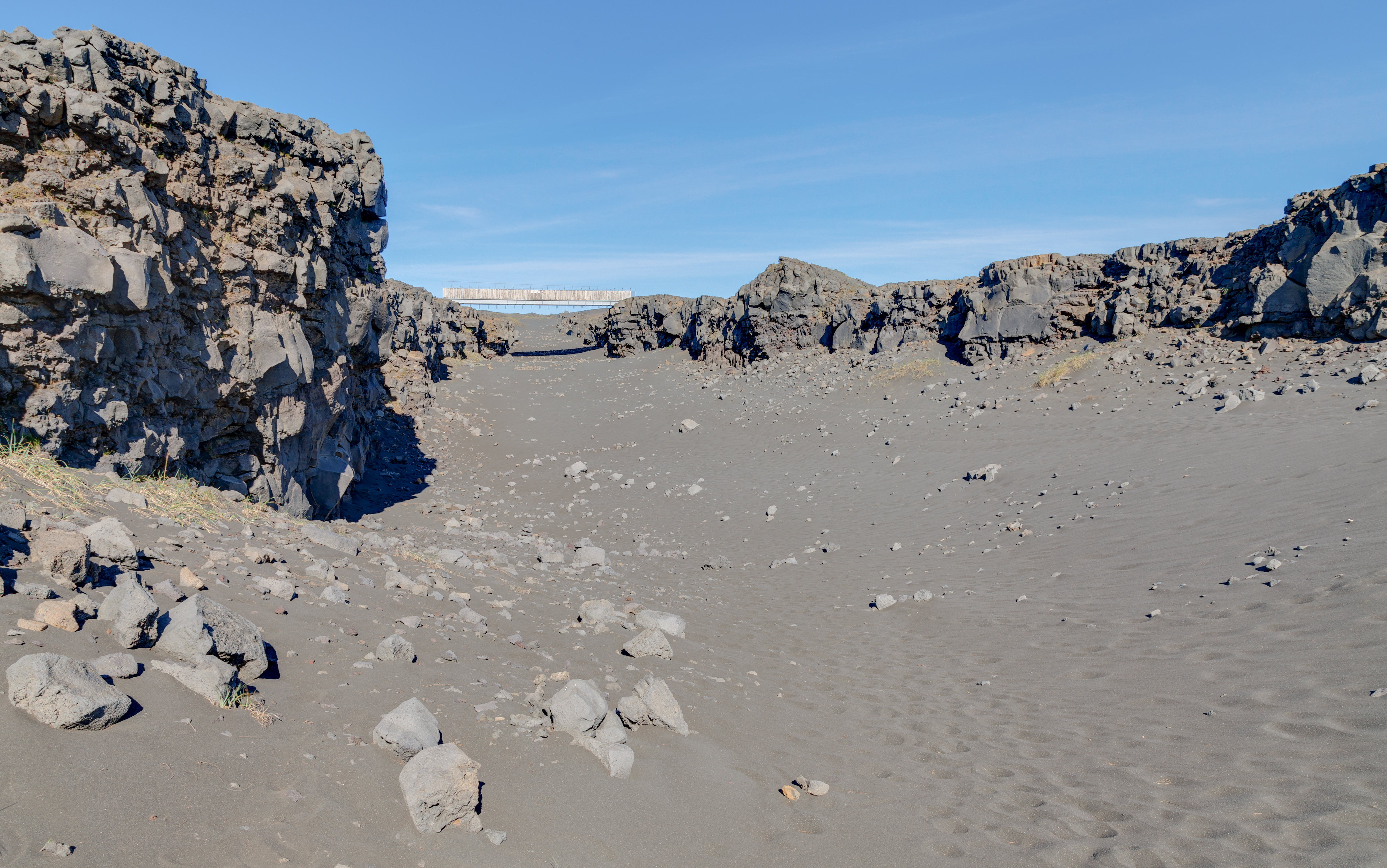 Tectonic plates of Eurasia and North America, Suðurnes, Iceland